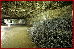 submarine nets The Great North Road is a large road inside a tunnel that was built within the Rock of Gibraltar. Picture from which is a cc by sa site